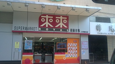 The picture is from me. I guess it helps people to diagnose whether it is a genuine store or not.